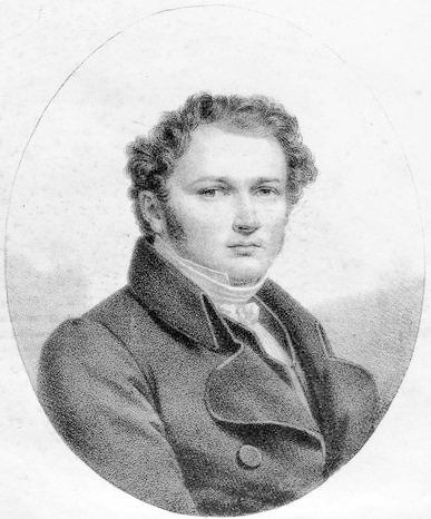 French opera singer Henri-Bernard Dabadie (1797-1853) by Godefroy Engelmann (1788-1839).